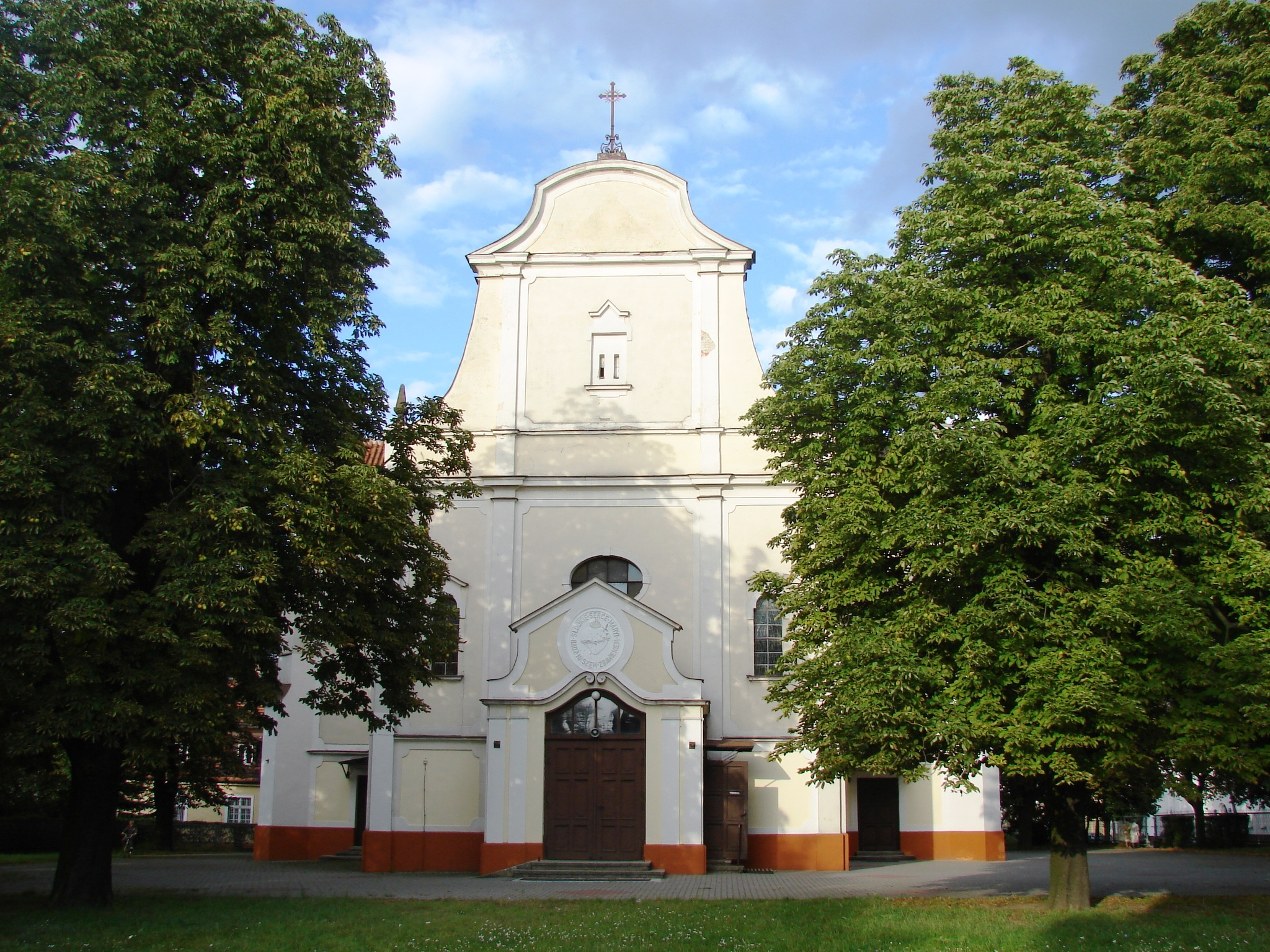 Church Immaculate Concepted Blesed Virgin Mary in Główna, Poznań